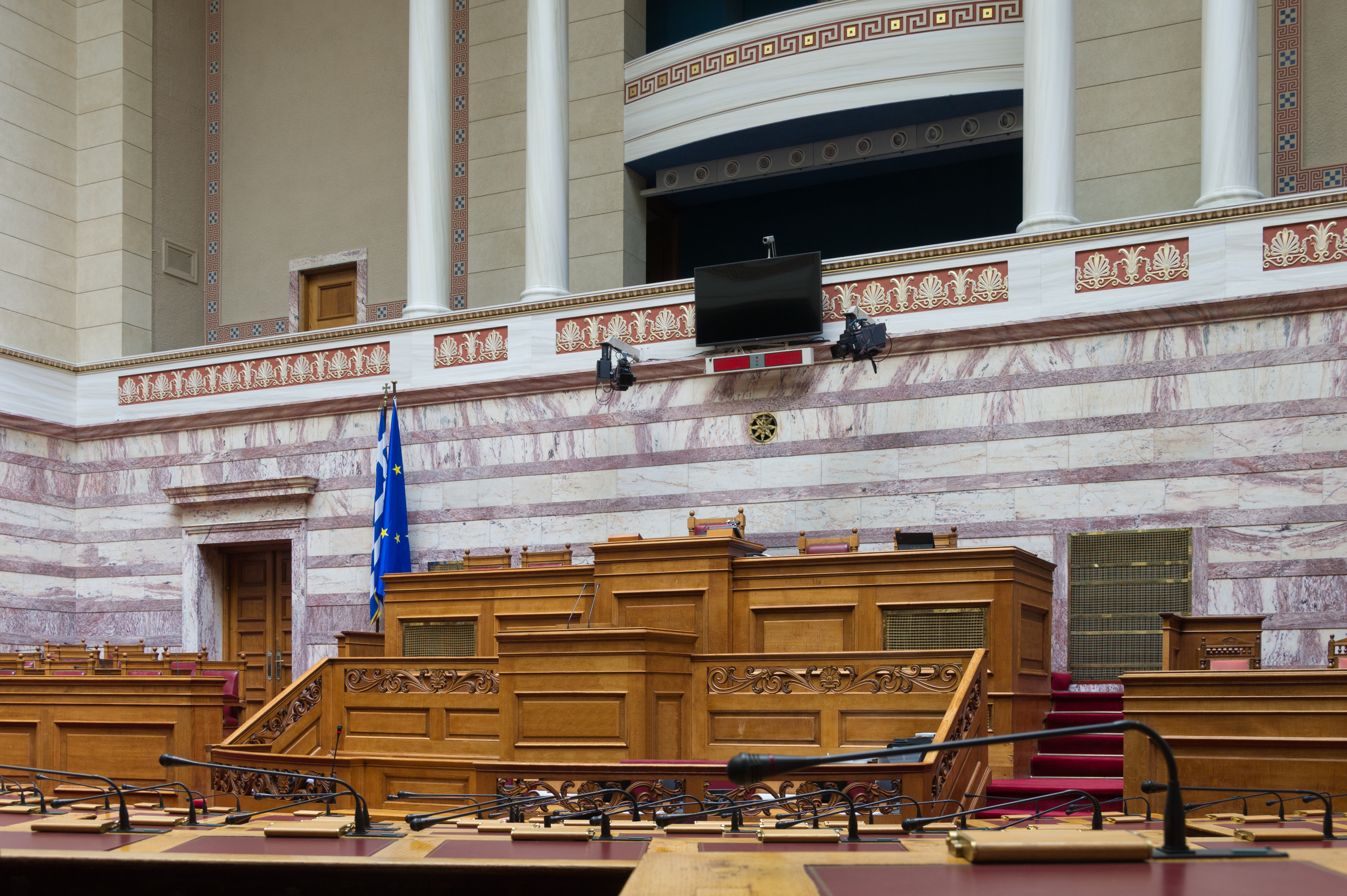 Inside of the plenary Hall of the Hellenic Parliament, the tribune. Athens, Greece.